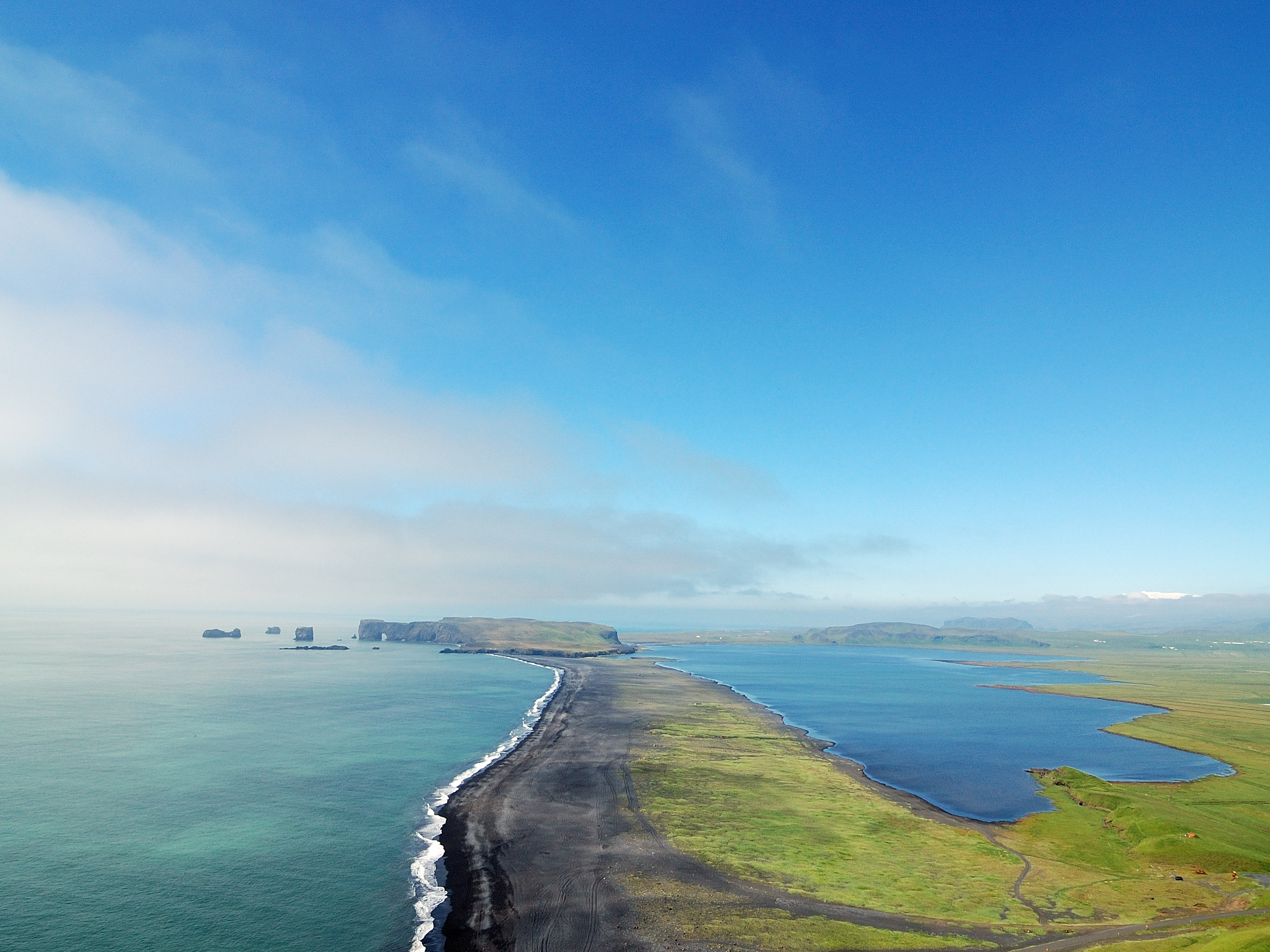 Reynisfjara with Dyrhólaey. Vík, Iceland [2008]